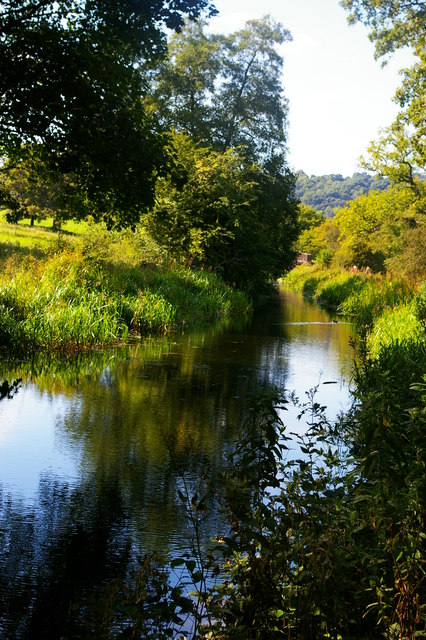 Cromford Canal